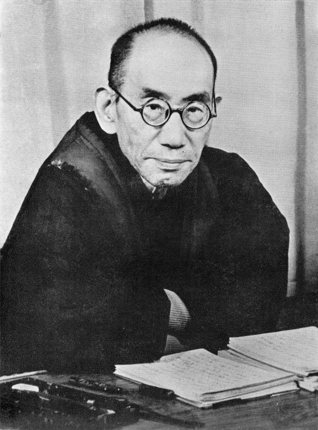 Portrait Kitaro Nishida. He was a prominent Japanese philosopher born in Ishikawa Prefecture (born 1870; died June 7, 1945).